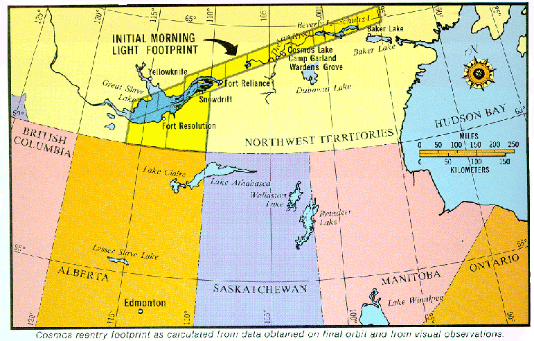 Cosmos-954 reentry footprint